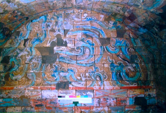 east han dynasty heritage in XJTU